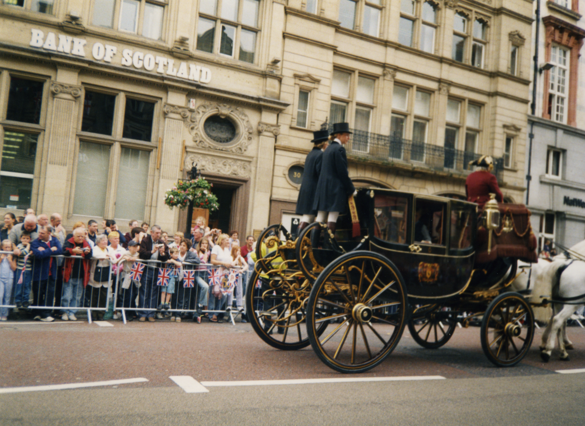 Carriage at the Lord Mayor's parade, Castle Street, Liverpool. Photo originally taken on 35mm film camera, sometime in the late 1990s. Digitally scanned on 16th July 2010.